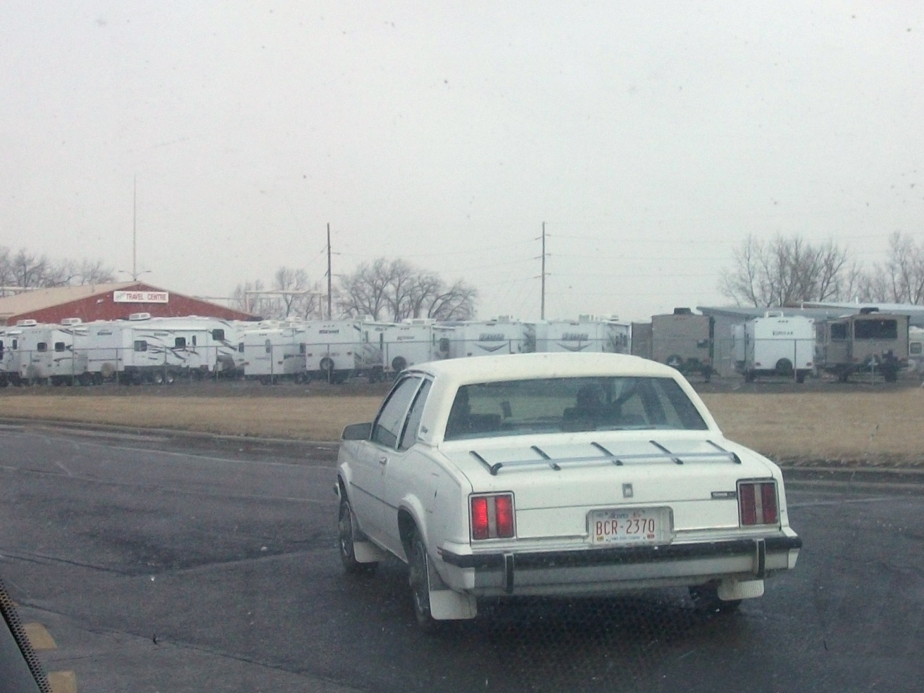 Rare to see an Oldsmobile Omega coupe these days. Apologies from the through the windshield shot.